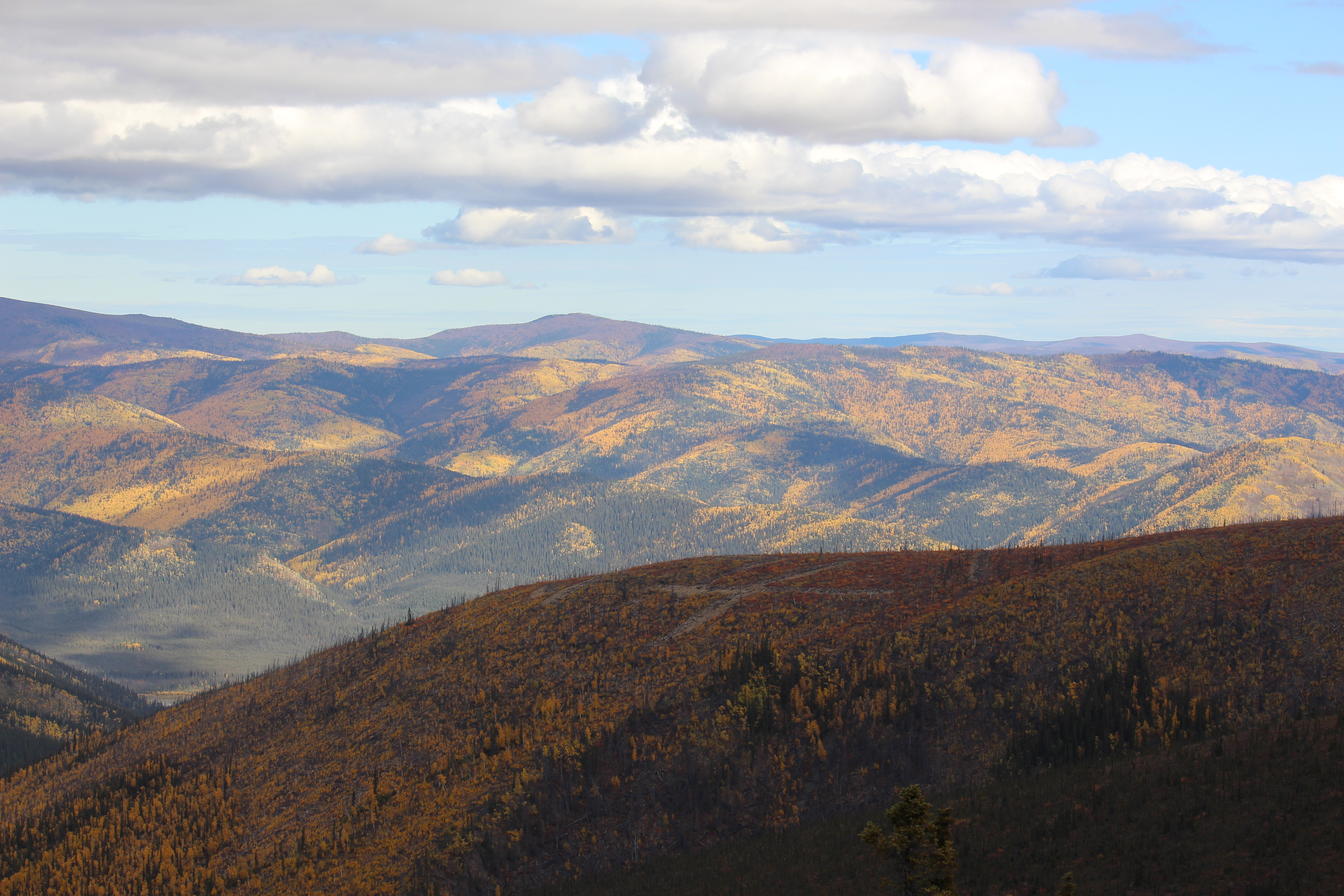 Photo pf the Wernecke mountains